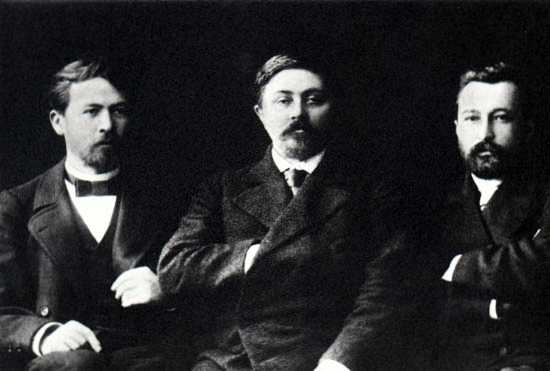 Russian writers. From left: Anton Chekhov, Dmitry Mamin-Sibiryak, and Ignaty Potapenko.